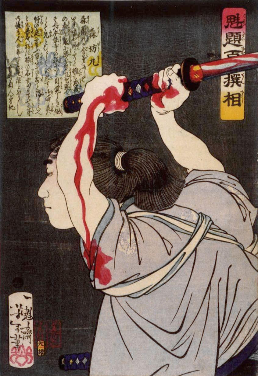 A ukiyo-e of Mori Bōmaru, a brother of Mori Ranmaru.